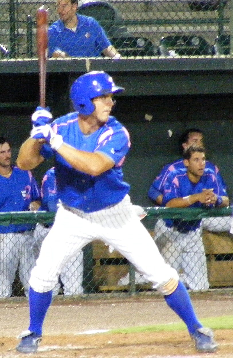 Matt Szczur (4) up to bat for the Daytona Cubs on August 31, 2011. Doubleheader vs. Tampa Yankees, at Jackie Robinson Ballpark, Daytona Beach, Florida. Photo credit: George Miziuk